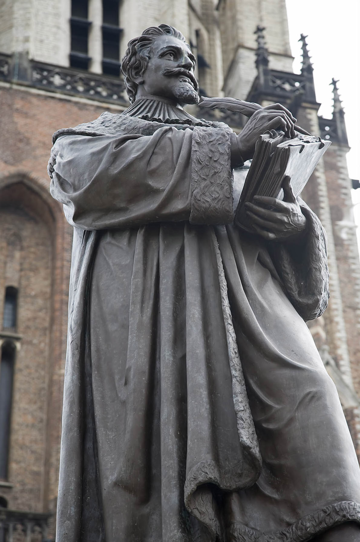 Statue of Hugo Grotius, made by Franciscus Leonardus Stracké in 1886, placed at Grote markt in Delft/the Netherlands